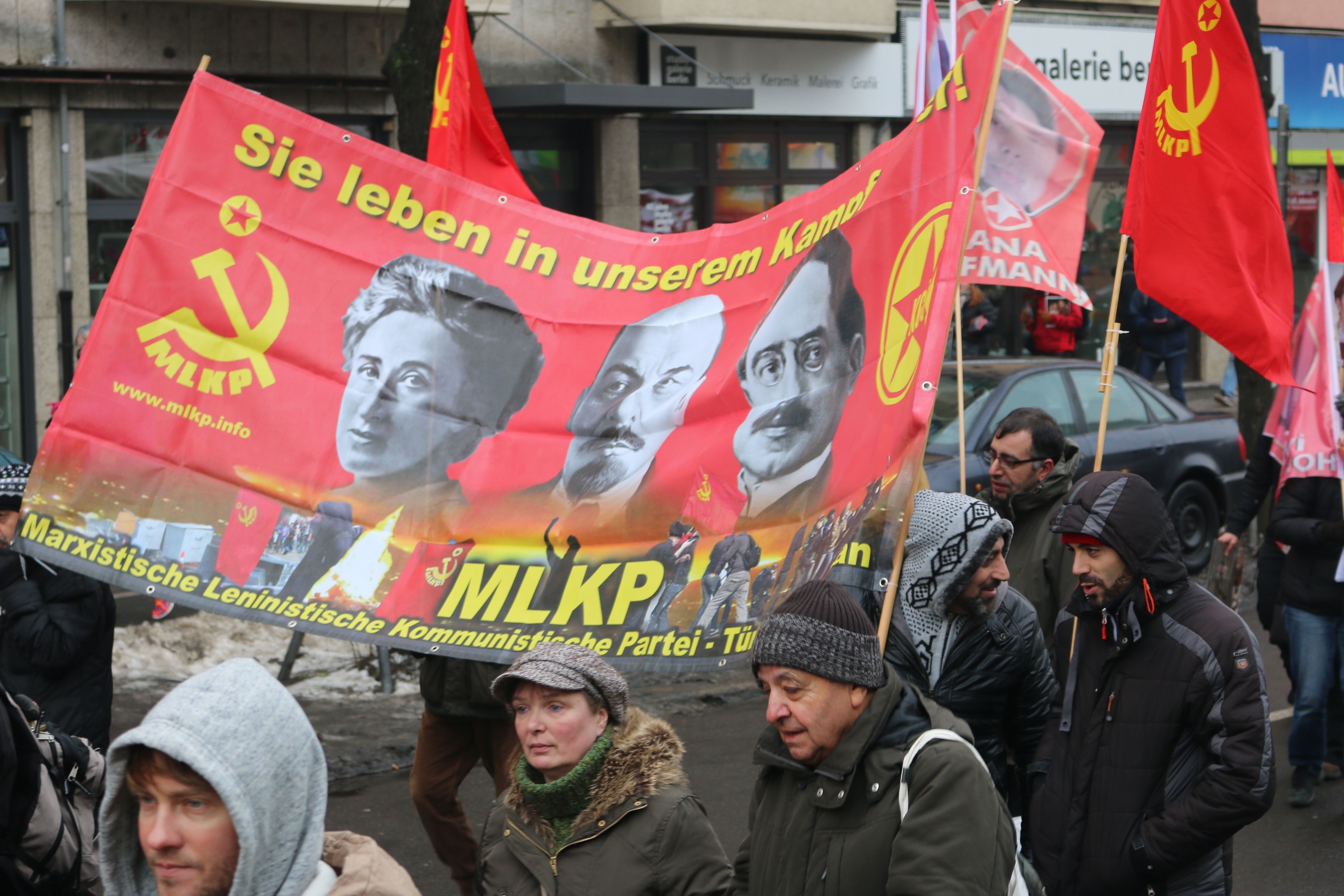 A scene from the 2016 Liebknecht-Luxemburg demonstration in Berlin, held each year in honor of the murdered communists